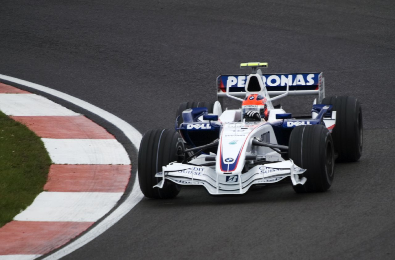 Robert Kubica driving for BMW Sauber at the 2007 British Grand Prix.